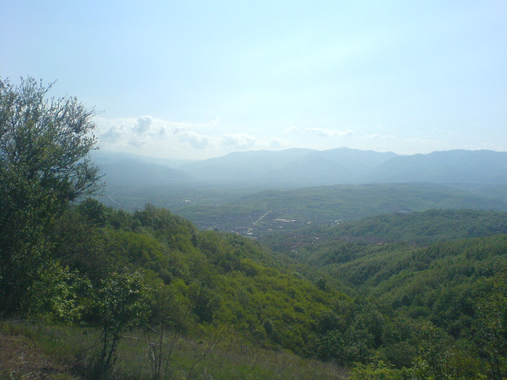 Panoramic view of Donje Jabukovo near Vladičin Han, Serbia